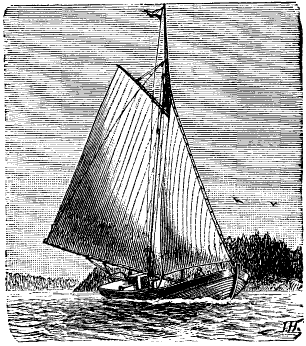 "Roslagsskuta" also designated as "Rospigg" the most common cargo ship in Sweden, from late 1800 to beginning of 1900, before the steam engine and combustion engine was introduced for marine applications.